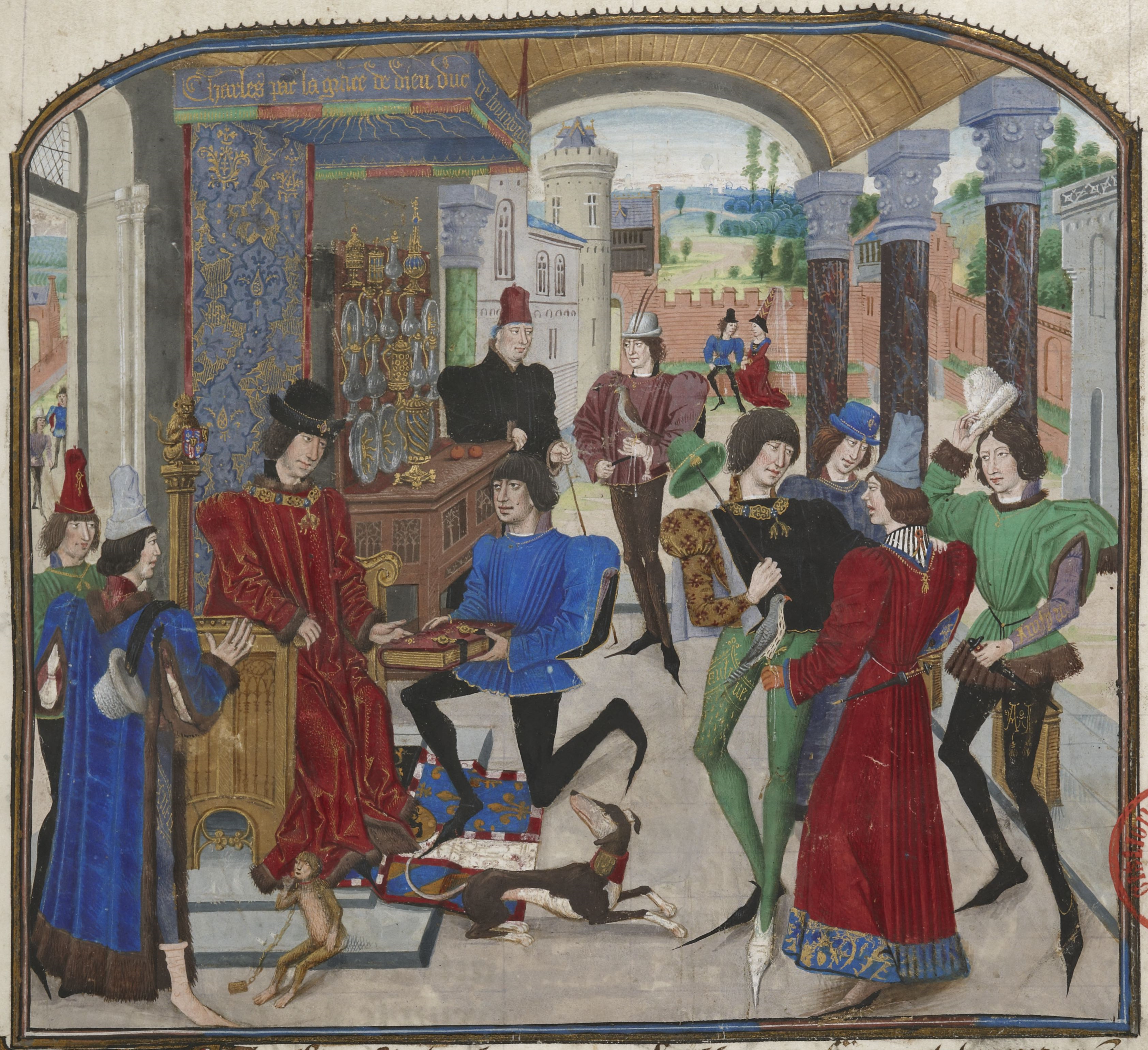 Vasco de Lucena offers his translation of History of Alexander the Great by Quintus Curtius to Charles the Bold, Duke of Burgundy.